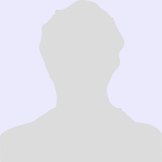 Male biographical icon - placeholder for missing picture